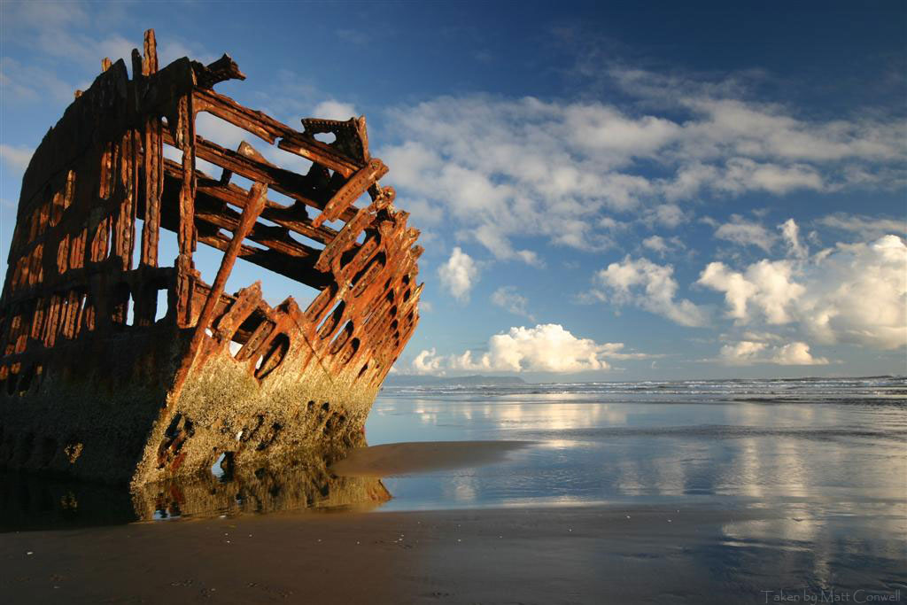 Picture taken August 2006 by Matt Conwell.